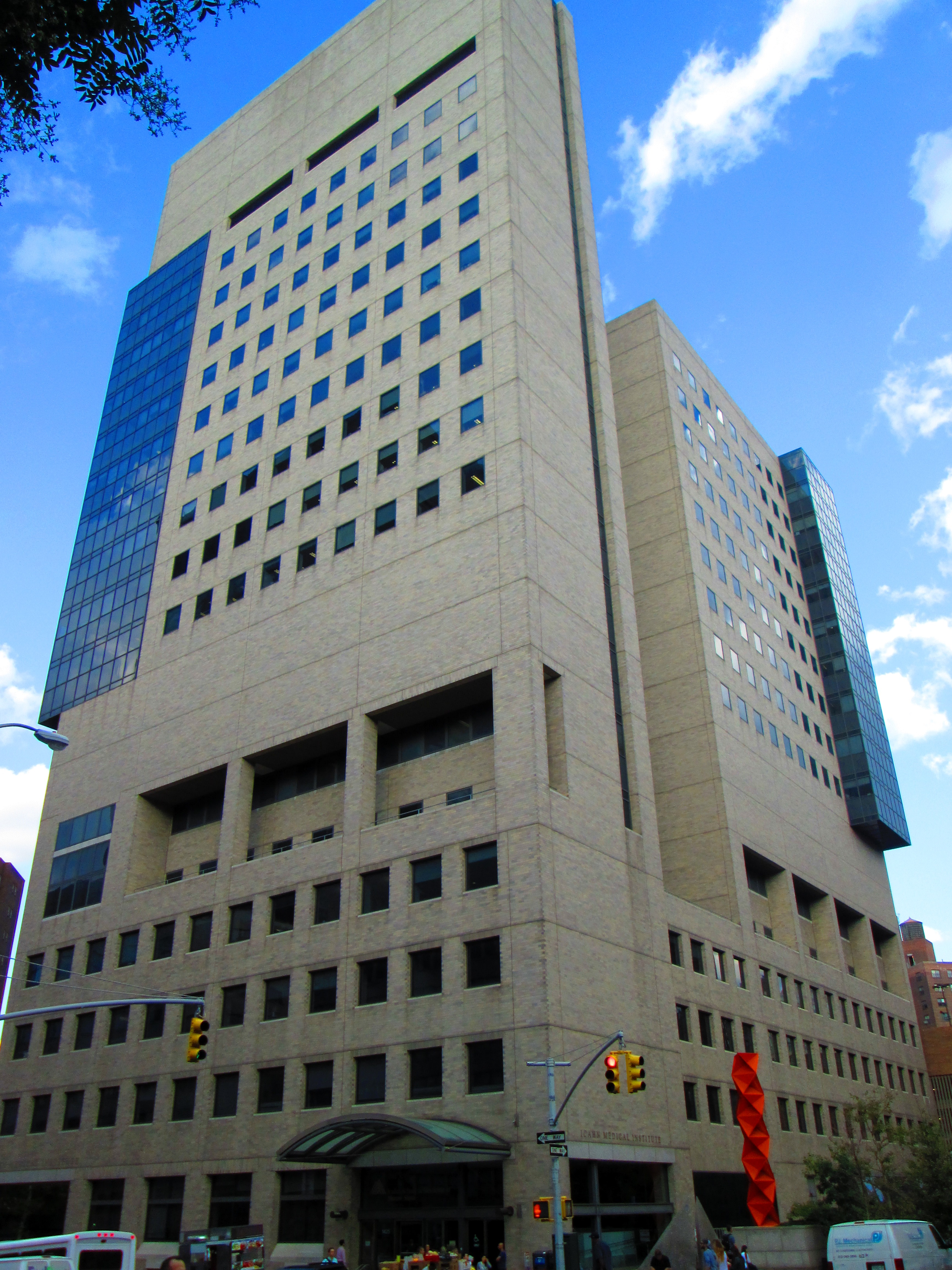 The Icahn Medical Institute of the Mt. Sinai School of Medicine, located at 1425 Madison Avenue between East 98th and 99th Streets in the East Harlem neighborhood of Manhattan, New York City, was built in 1997 and was designed by Davis Brody Bond. The building takes up the full block to Park Avenue, and is connected to the rest of the Mt. Sinai complex by a tunnel. (Source: AIA Guide to NYC (5th ed.))